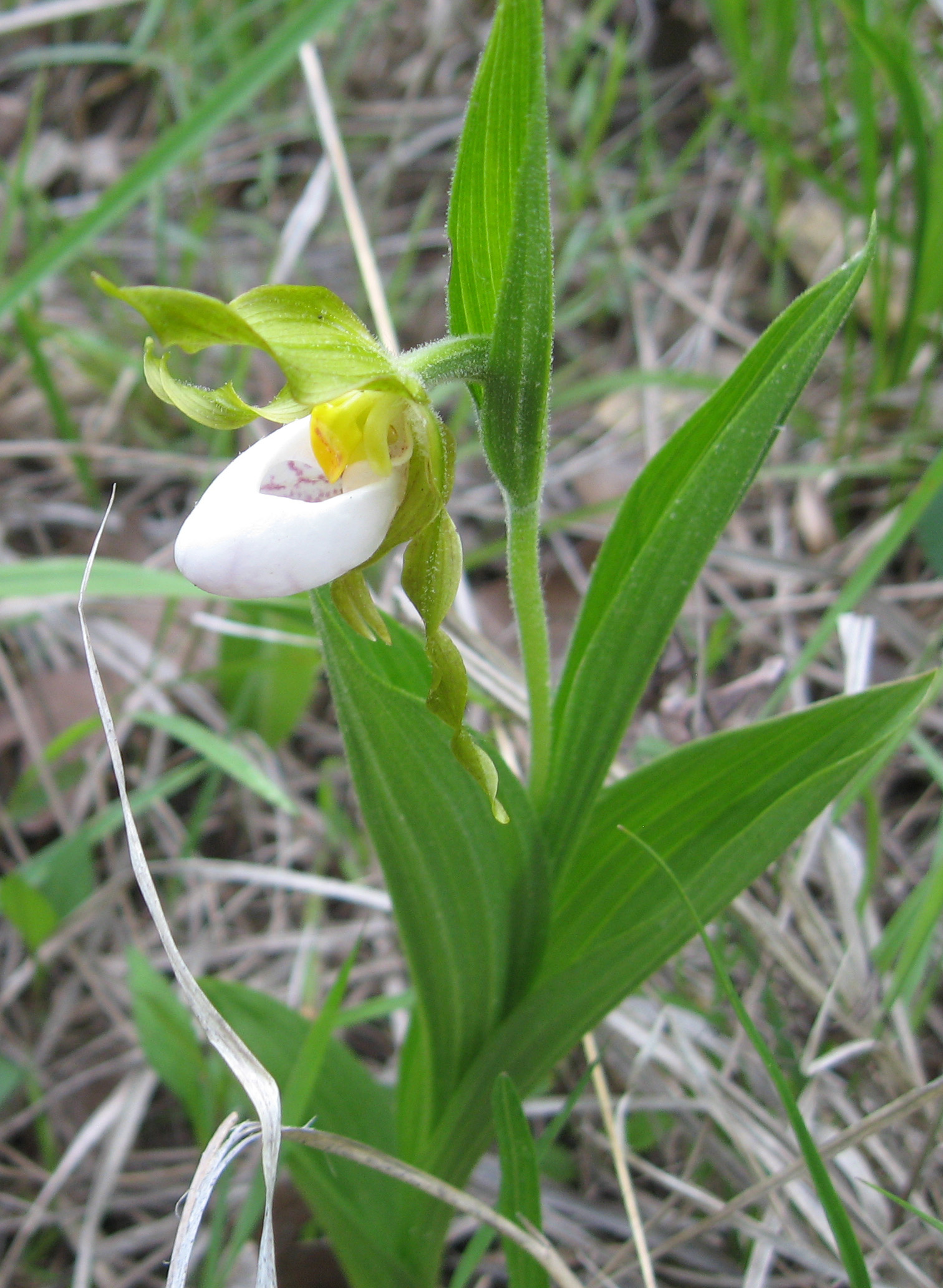 Cypripedium candidum. Moist rivets in a limestone barren in Lewis County, Kentucky.